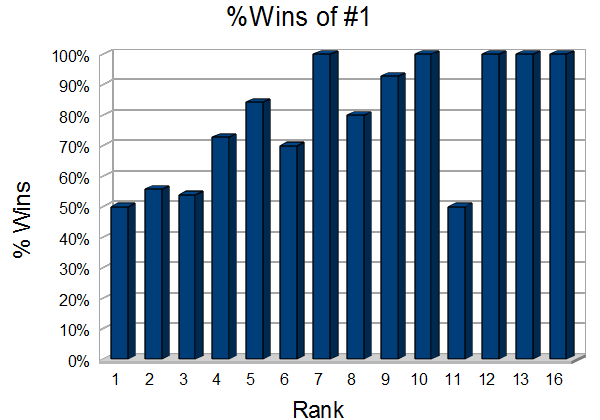 % Wins of #1 rank in the NCAA tournament vs. other ranks